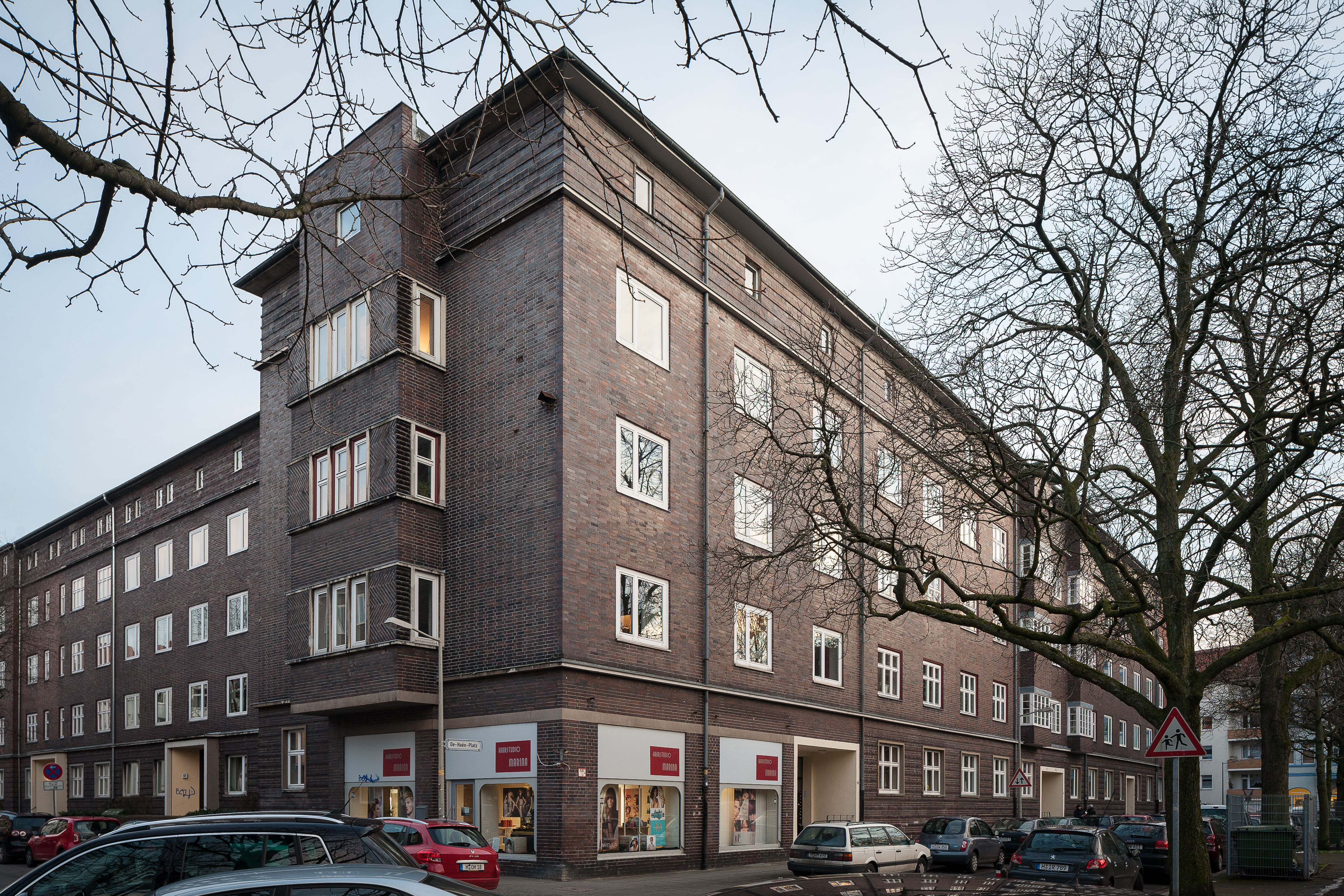 Apartment building at the De-Haen square in List district, Hanover, Germany.